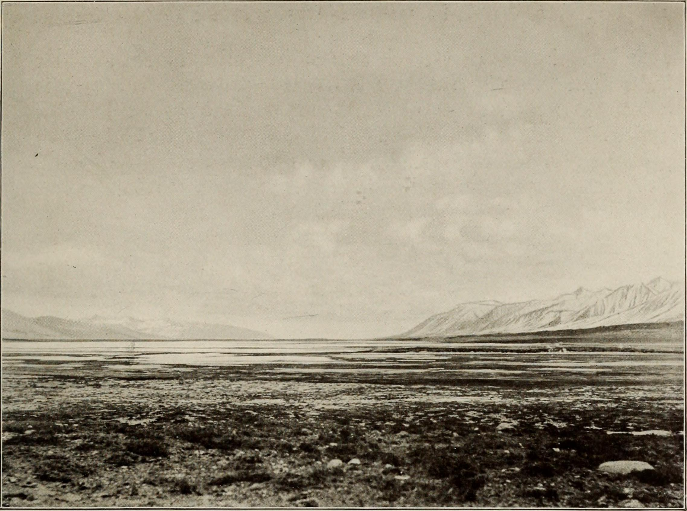 Title: Ruins of desert Cathay : personal narrative of explorations in Central Asia and westernmost China Year: 1912 (1910s) Authors: Stein, Aurel, Sir, 1862-1943 Archaeological Survey of India Subjects: Publisher: London : Macmillan Text Appearing Before Image: -dong, and a warm and slightly sulphurous springclose below it. Then we crossed, almost without per-ceiving it, the lov/ and flat saddle which separates theAb-i-Panja Valley from the drainage of the Murghab orAk-su, the other main branch of the Oxus. By a geo-graphically interesting bifurcation which I was glad toverify closely, the stream of the Chilap Jilga whichdebouches on this saddle from the range to the north sendsits waters partly towards Bozai-gumbaz and the Ab-i-Panja and partly into Lake Chakmaktin, the head-watersbasin of the Murghab. It was curious to think that, whilesome drops in the Chilap stream would reach the trueOxus bed within a couple of hours, others from the samemelting snow-bed would have to travel over three hundredand fifty miles through the Russian Pamirs and thegorges of Roshan before becoming reunited. From where we touched the shore of Lake Chak-maktin the broad basin of the Little Pamir spread out tothe north-east, a morne waste of half-frozen marsh and Text Appearing After Image: 27- VIEW ACROSS LAKE CHAKMAKTIN TOWARDS AK-TASH, LITTLE PAMIR.